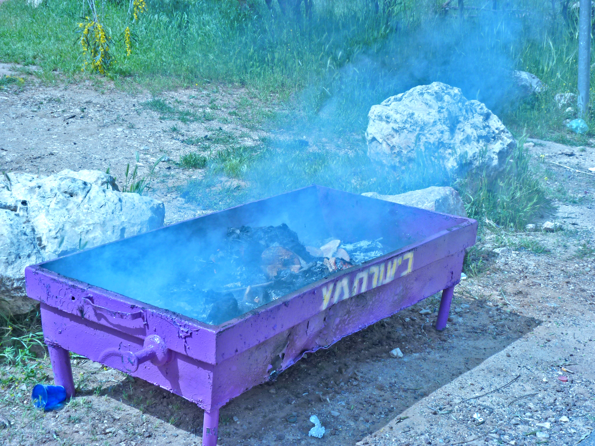 Exodus 13:7 - The Burning of the Leavened Bread